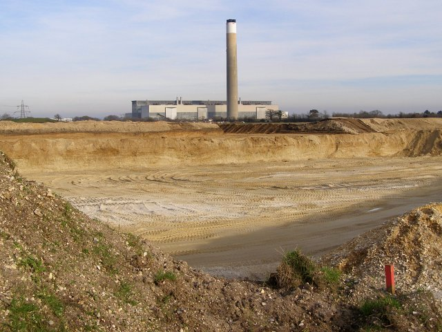 Sand and gravel extraction site, near Badminston Farm